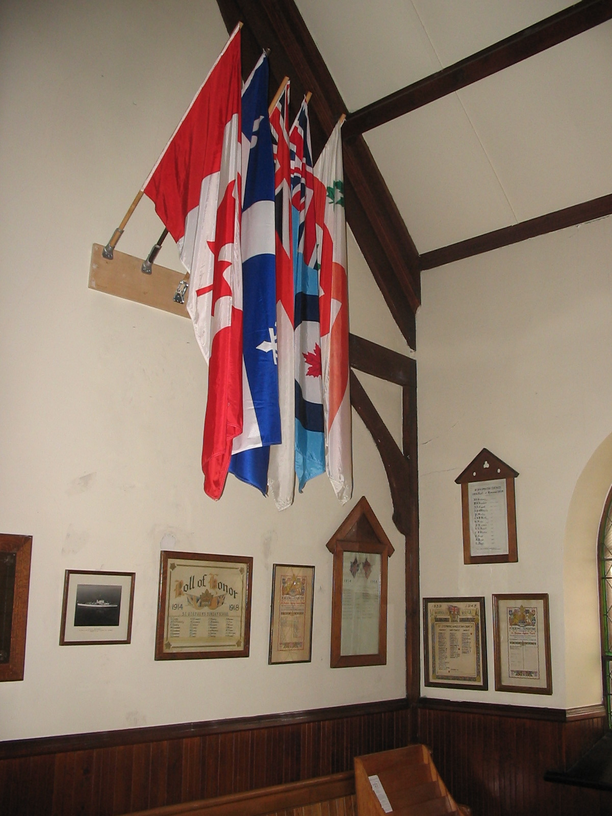 The veterans' memorial corner at St. Stephen's Anglican Church, Buckingham, QC